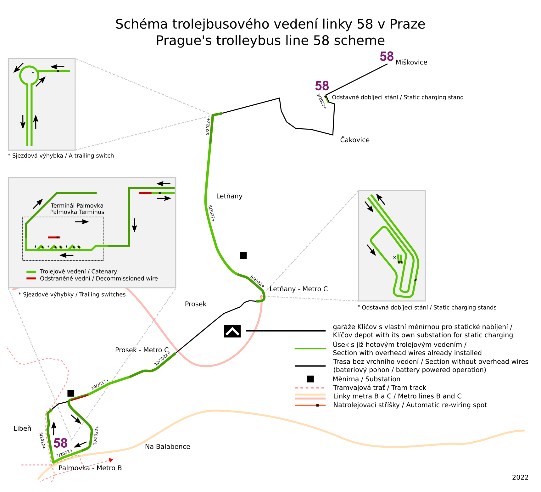 The scheme of Prague's trolleybus system.